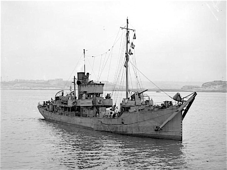 Photograph of British naval trawler HMT Swansea Castle.